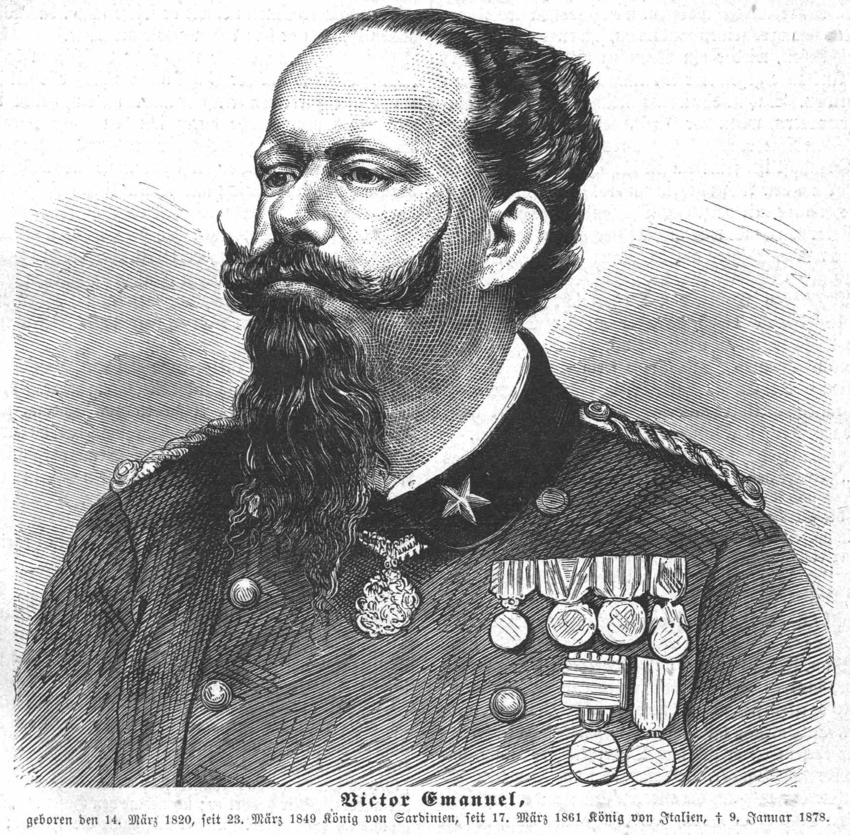 Victor Emmanuel II, King of Italy